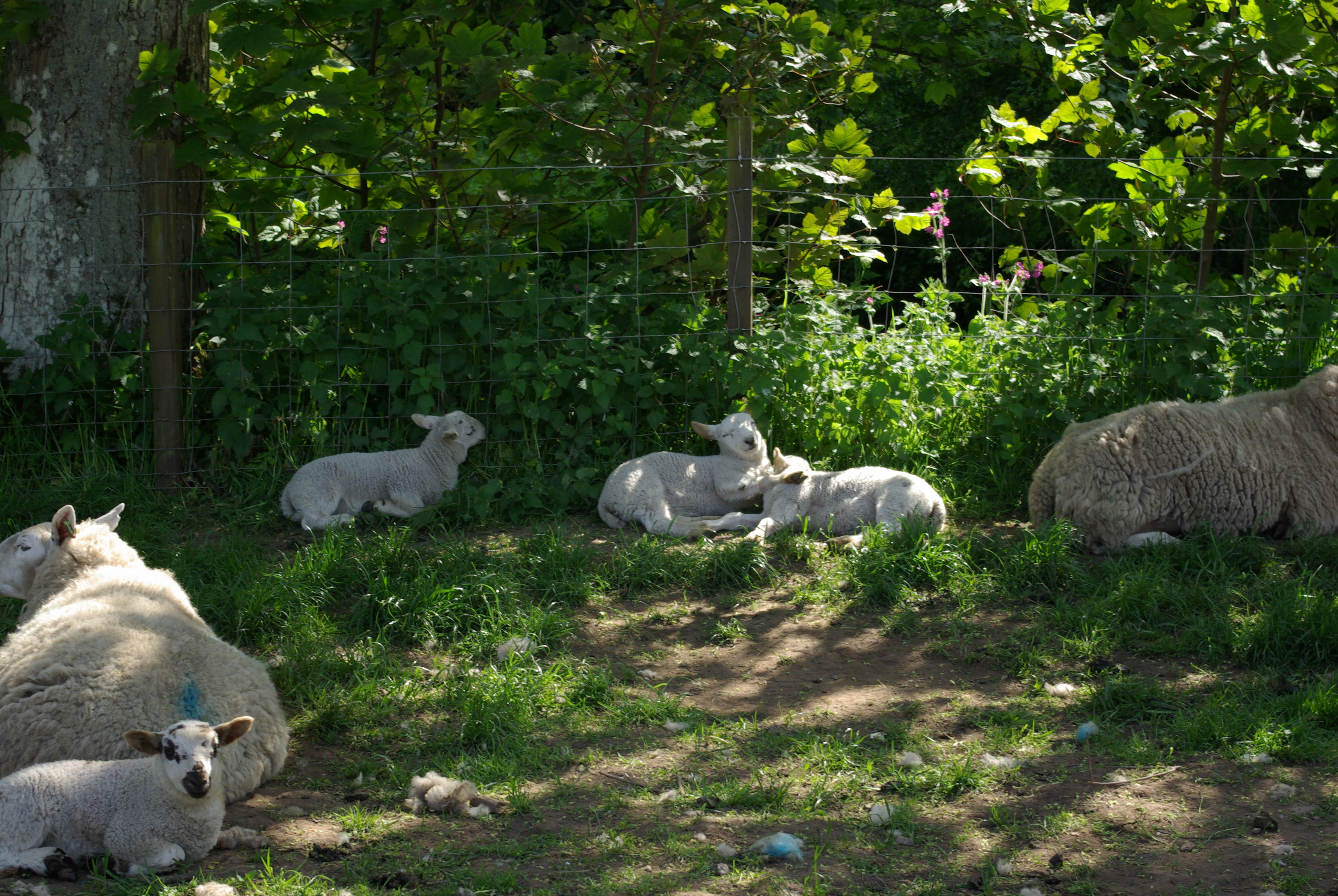 Spring lambs and parents at few weeks old